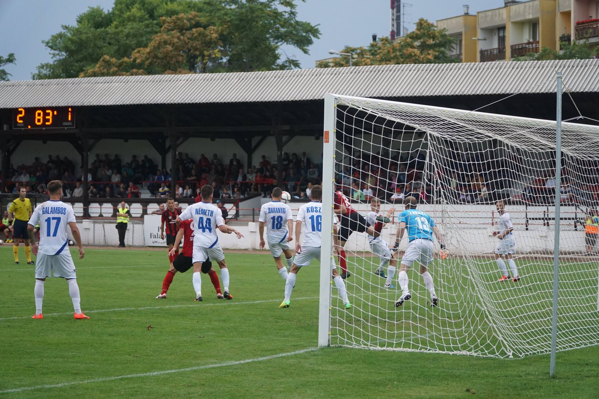 One of game round in the second class as host.